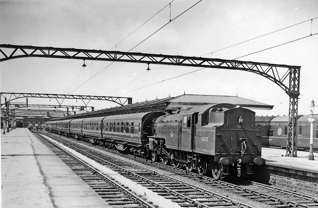 Morecambe Promenade Station - pre-1994 station. View westward to buffer-stops; ex-Midland terminus of the line from Leeds/Bradford via Skipton, Hellifield and Lancaster. An electric (6,600V 50Hz) service to Heysham had been inaugurated back in 7/08 and extended back to Lancaster in 9/08, but reverted to steam in 2/51. Electric services (6,600V, 25 Hz) were restored from 8/53 until 1/66 (interrupted 10/55 - 3/56). The station (plain 'Morecambe' from 5/68) was closed in 2/94 when the present terminus nearer the town was opened. After 9/58 when Morecambe Euston Road was closed, ex-London & North Western line services were diverted to Promenade: the train in this scene, headed by LMS-type 4MT 2-6-4T No. 42135, is the 14.15 service to Crewe.